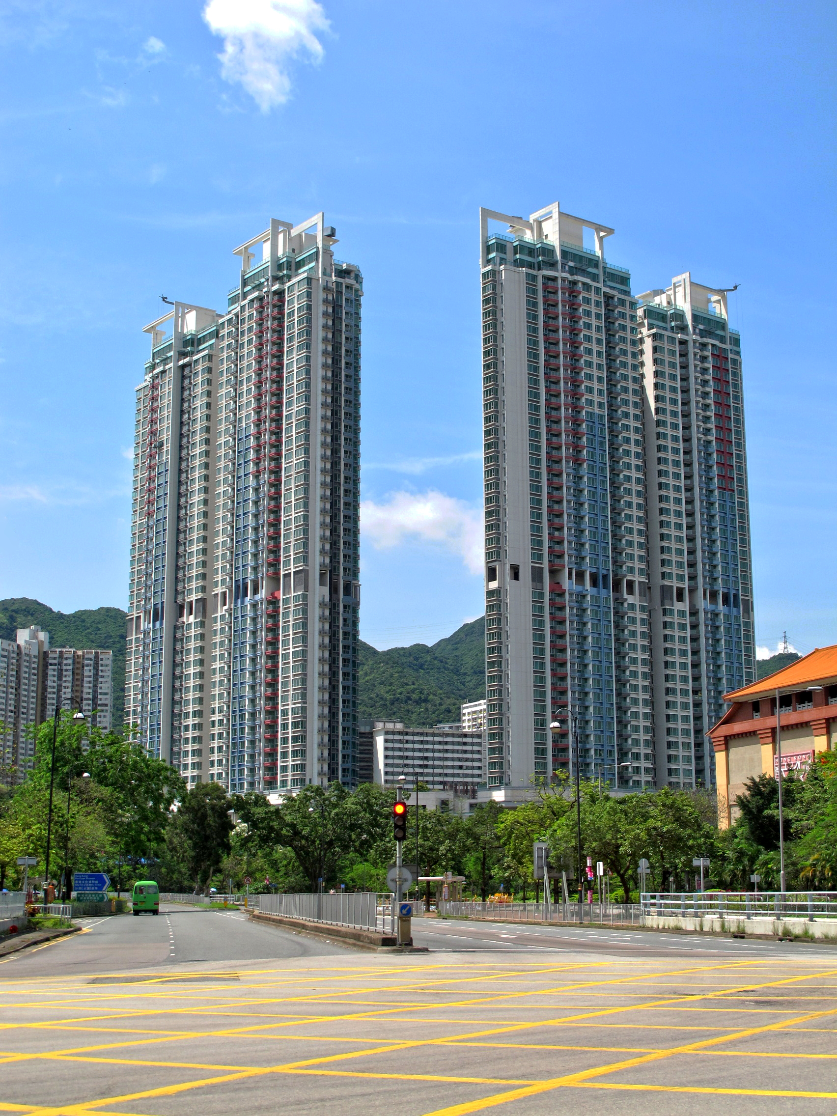 The Riverpark 溱岸8號